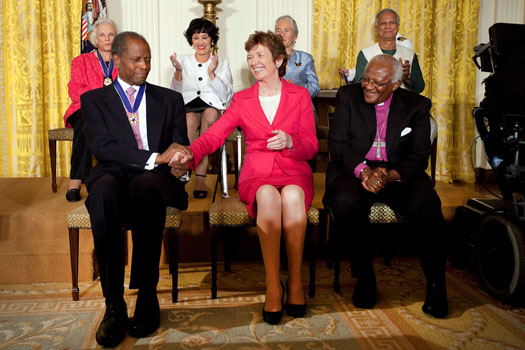 Former President of Ireland and United Nations High Commissioner for Human Rights, Mary Robinson, centre, congratulates actor and diplomat, Sidney Poitier, left, after he received the Medal of Freedom from United States President Barack Obama during a ceremony in the East Room at the White House on 12 August 2009. Fellow recipients looking on are Archbishop Desmond Tutu, right, and back row, left to right are: Supreme Court Justice Sandra Day O'Connor, Chita Rivera, Dr. Janet Davison Rowley, and Muhammad Yunus. The medal is the highest civilian honour in the United States.